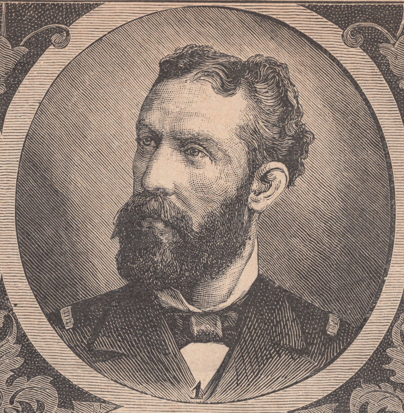 Emil von Wohlgemuth, Austrian Navy Officer and Polar Explorer (1844-1896)